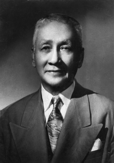 Photo of former Philippine president Sergio Osmeña